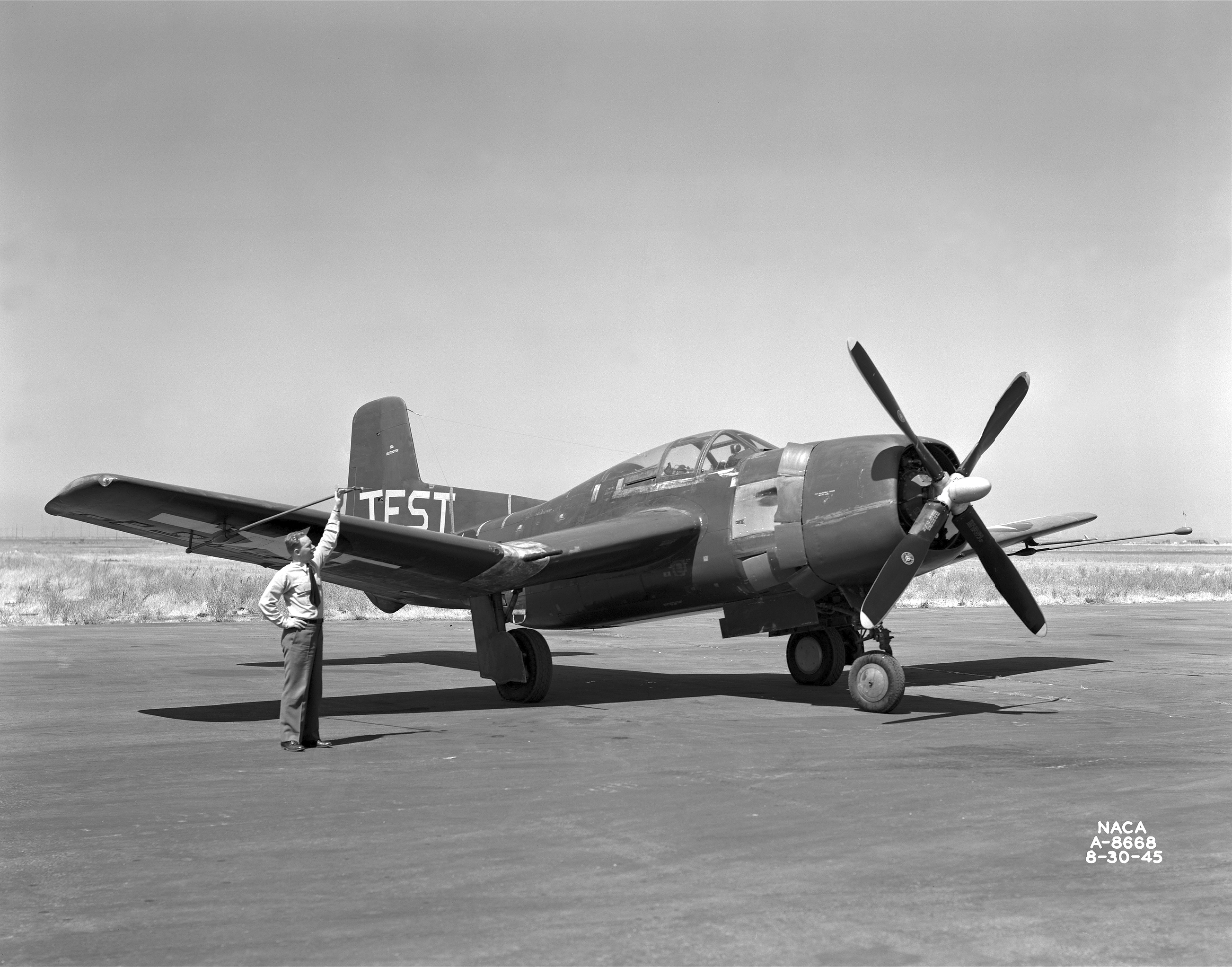 The Douglas BTD-1 Destroyer BuNo. 04968 was used by the National Advisory Committee for Aeronautics (NACA), Ames Research Center, Moffet Field, California (USA), from 28 July 1944 to 30 June 1947 to gain data on flying qualities, stability and control, and performance.